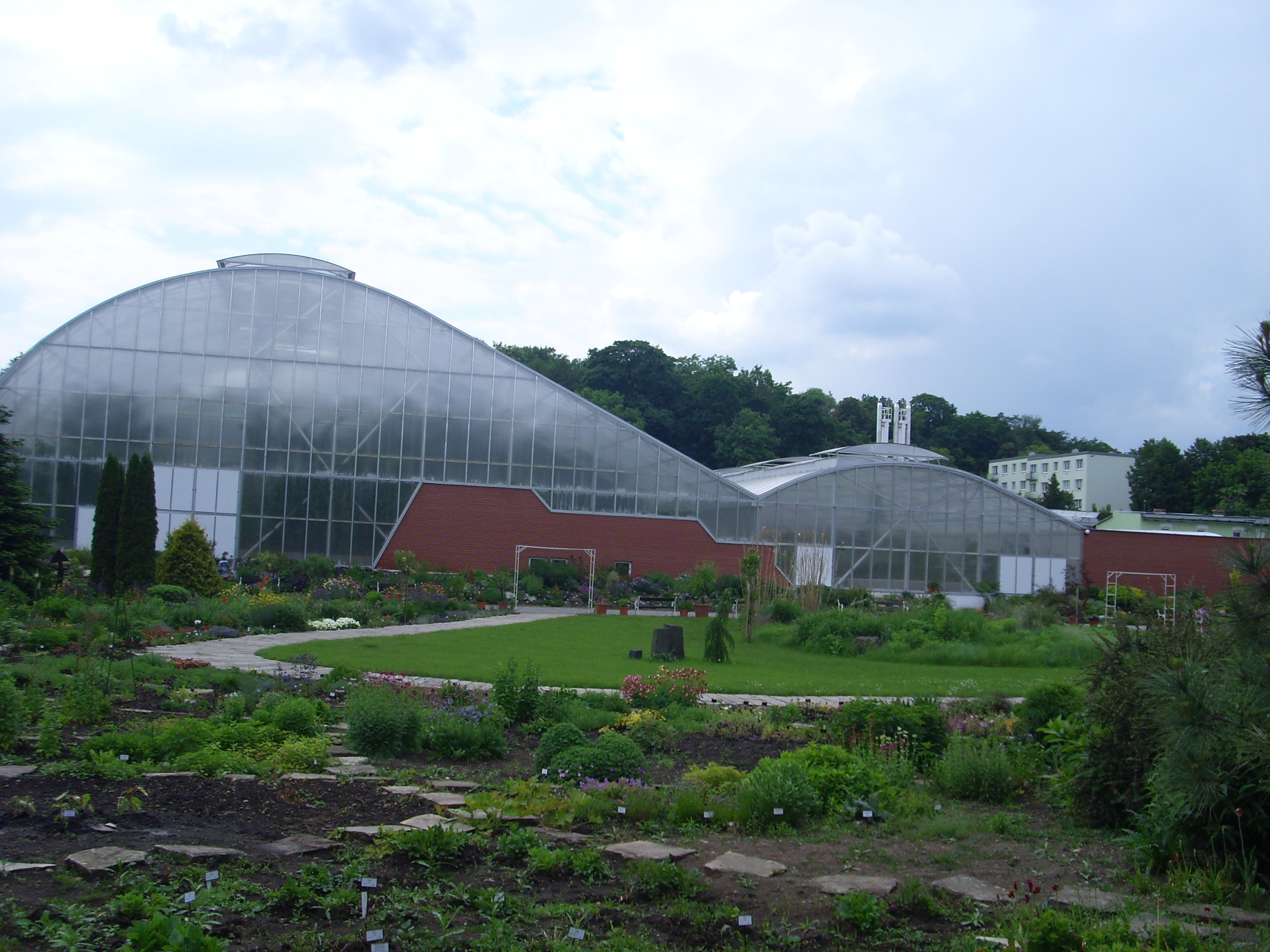 Botanic garden in Teplice- 2008